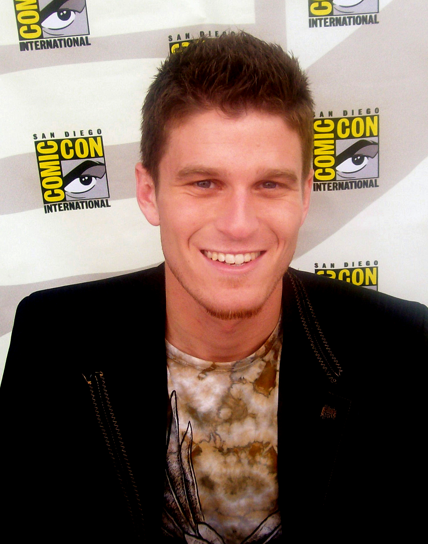 Kevin Pereira at the 2007 Comic-Con. Picture taken by myself.